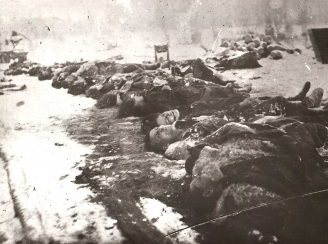 Medical staff of the field hospital 2212 murdered by Ilmari Honkanen long-range patrol group on 12 February 1942 in Petrovo-Jam.